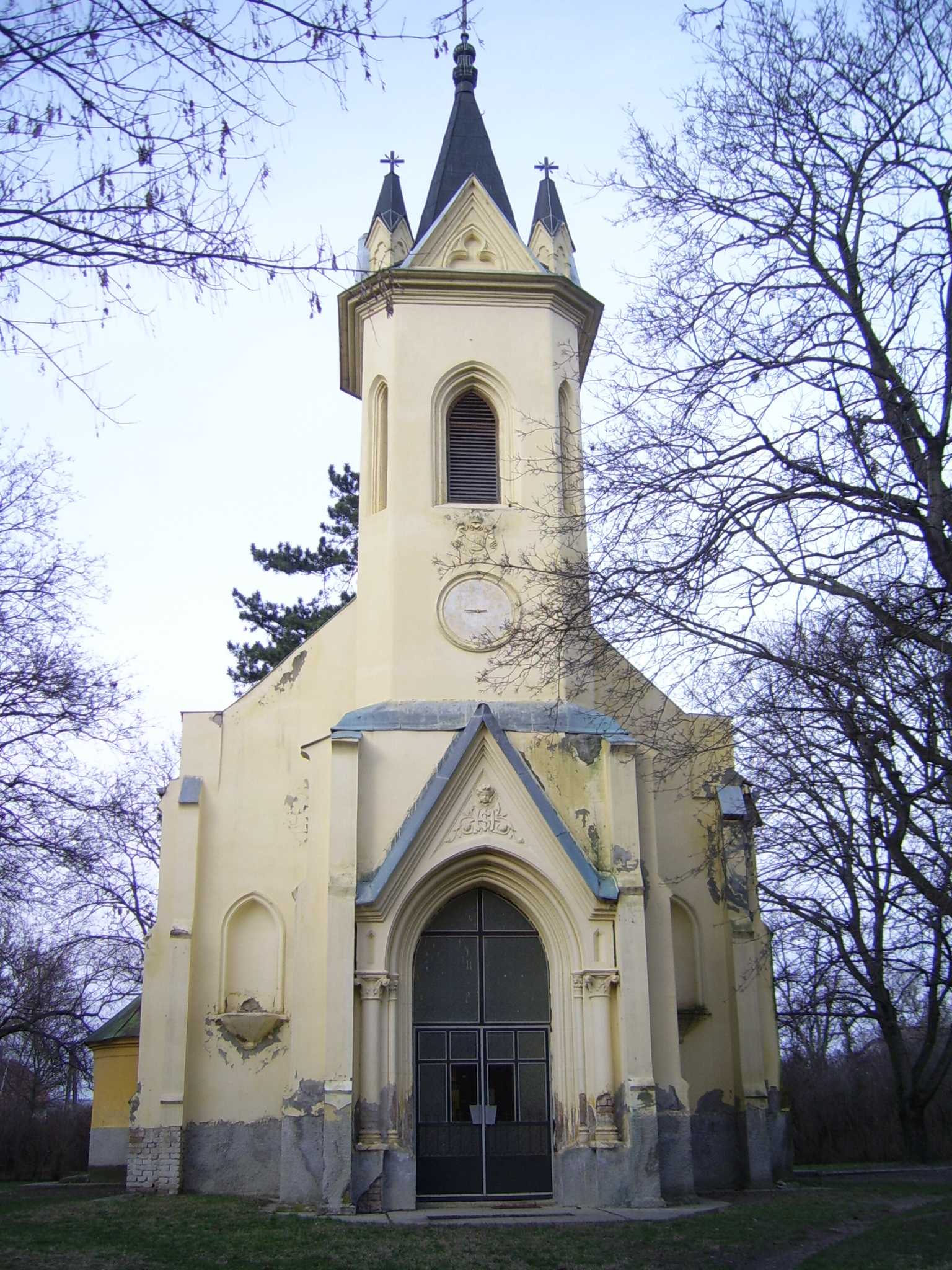 Augustine of Hippo Church, Pusztavacs, Hungary